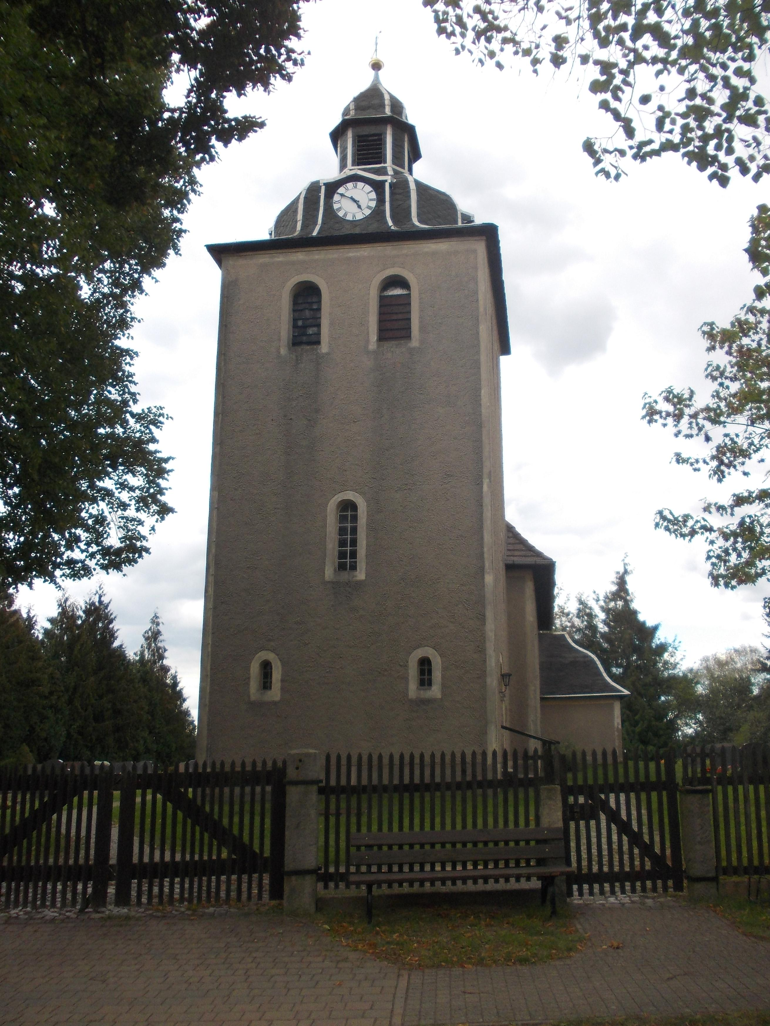 Rehfeld church (Falkenberg/Elster, Elbe-Elster district, Brandenburg)